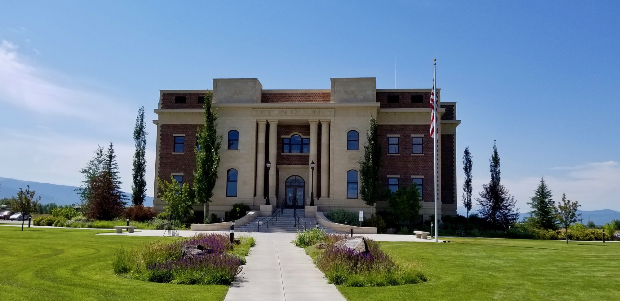 Teton County Courthouse, photo by John Stanton 14 Jul 2017